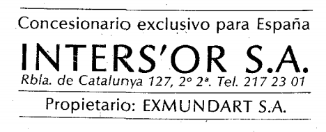 Inters'or S.A.